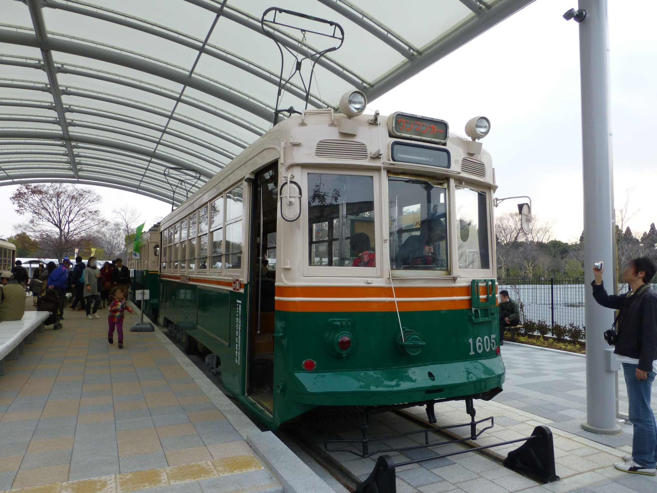 Kyoto Municipal Tramway 1605 of type 1600, preserved at Tramway Square in Umekoji Park.